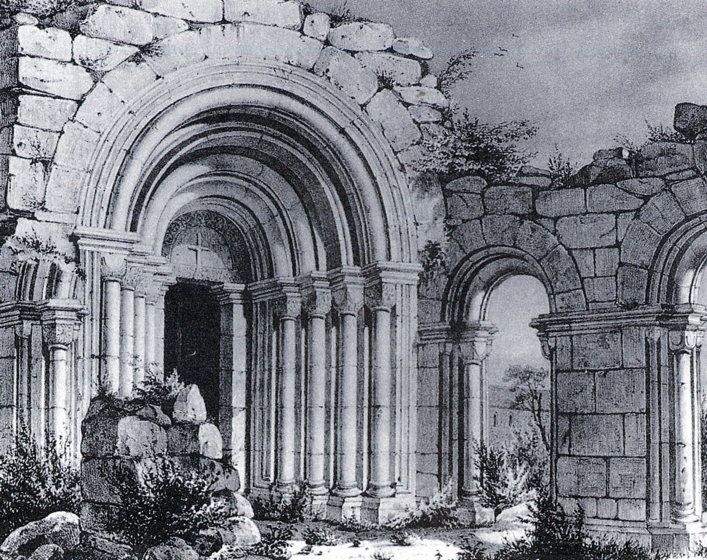 The western door to the church Thalbürgel